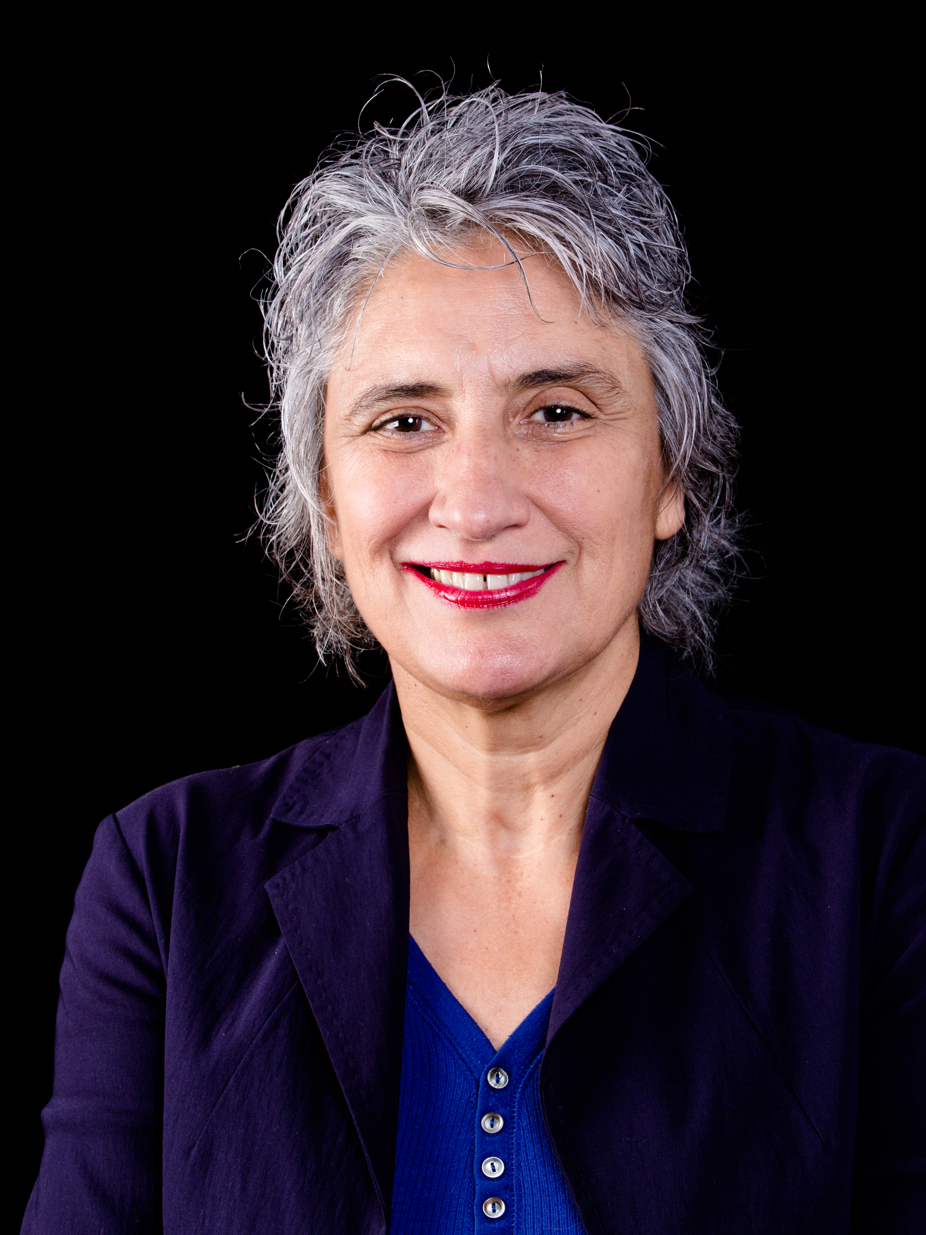 Italian Politician Paola Concia at the Frankfurt Book Fair 2017